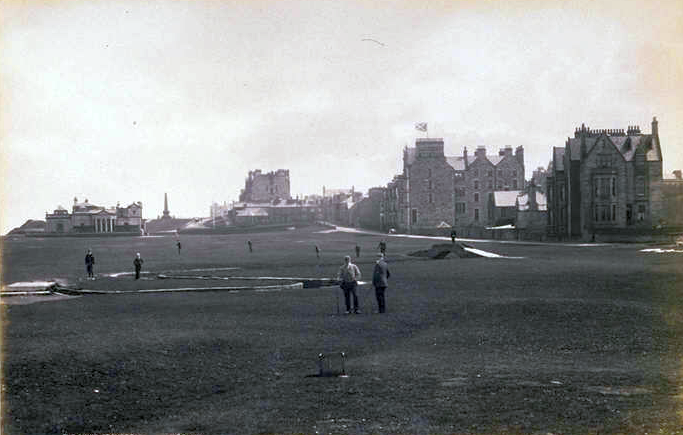 Old Course St. Andrews Scotland 1891